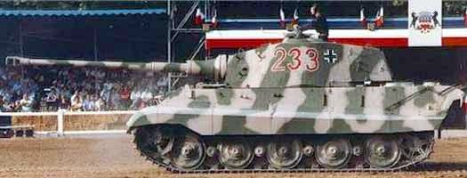 Tiger II giving a demonstration at the tank museum in Saumur (France) in 1990.